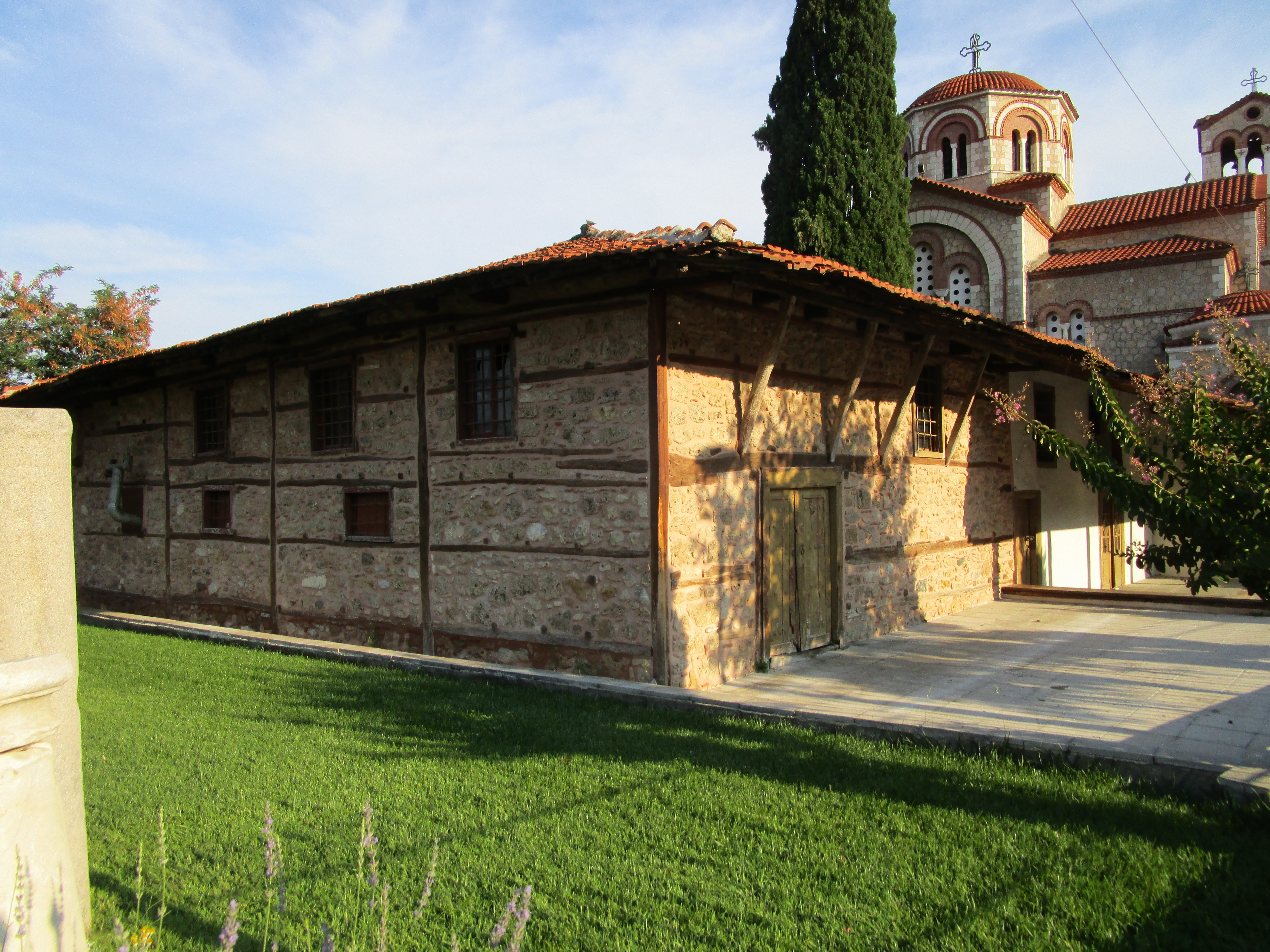 Anargirio Mikro, Ber